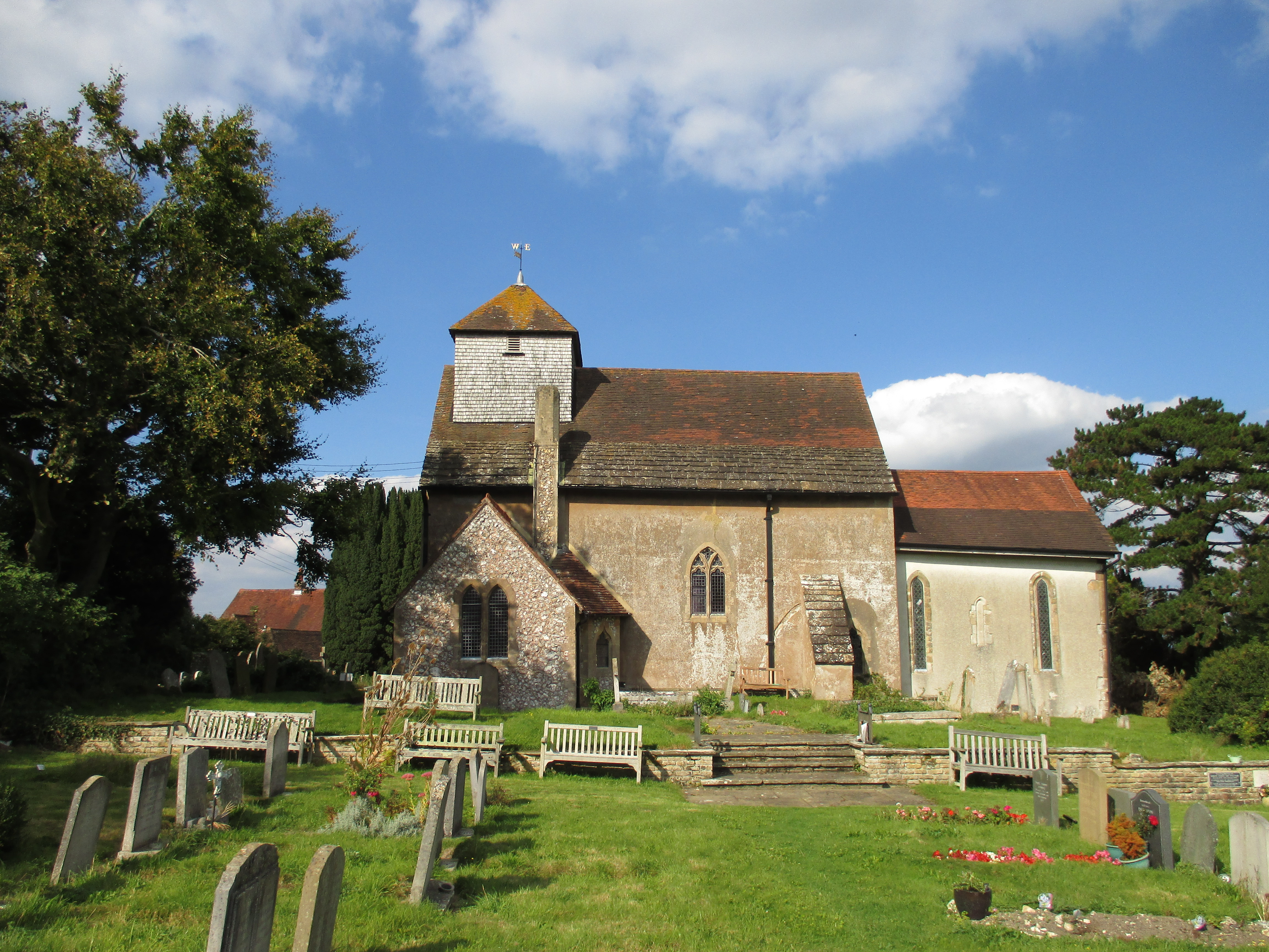 St John the Baptist parish church, Clayton, West Sussex, seen from the south